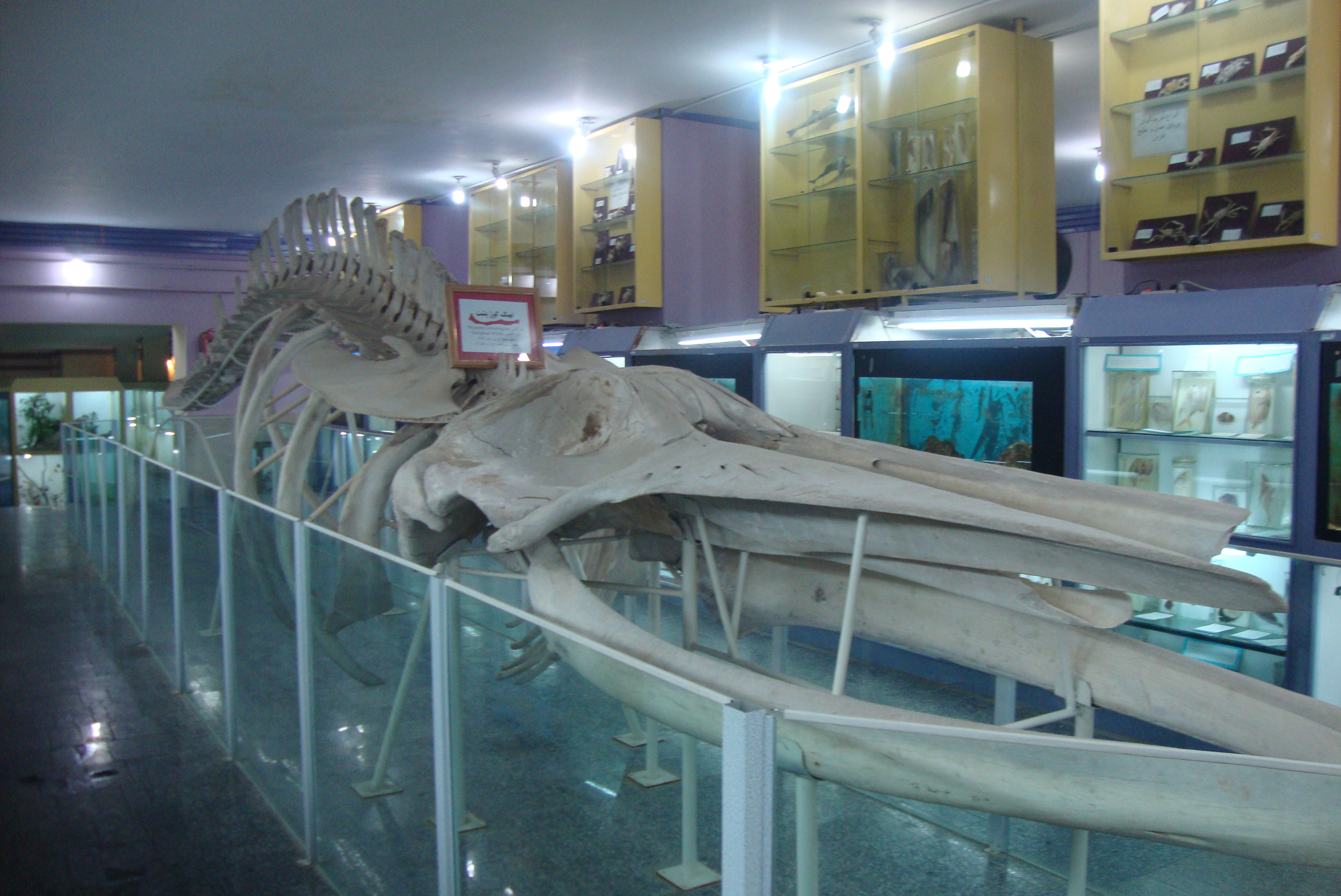 Humpback Whale Skeleton, Museum of Hamedan, Iran